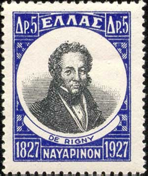 Greece stamp, Adm. Henri de Rigny, 100th anniversary of the Battle of Navarino, 5 drachmas, 1927